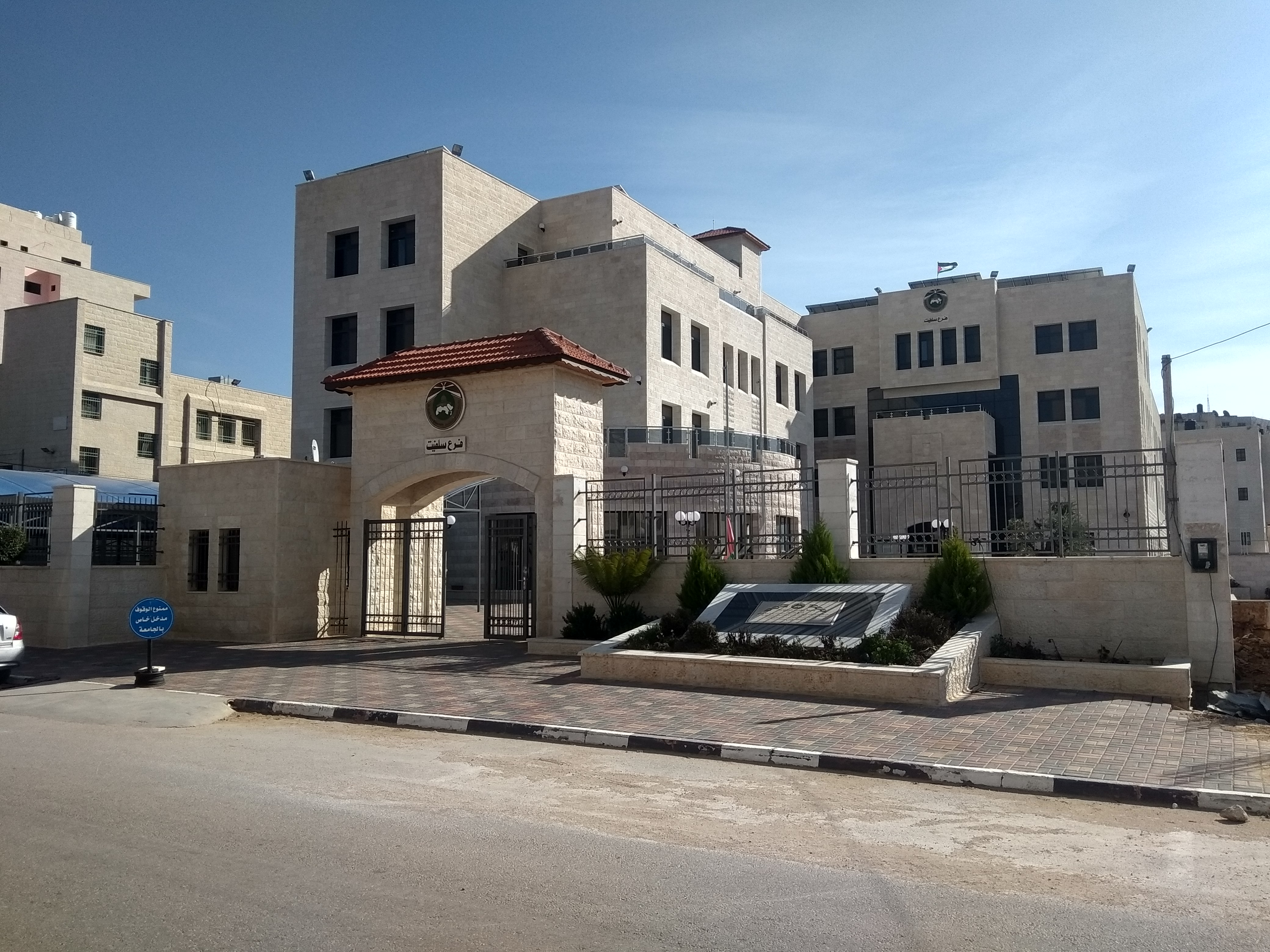 Entrance to the new campus of the Al Quds Open University - Salfit branch 2-2019.